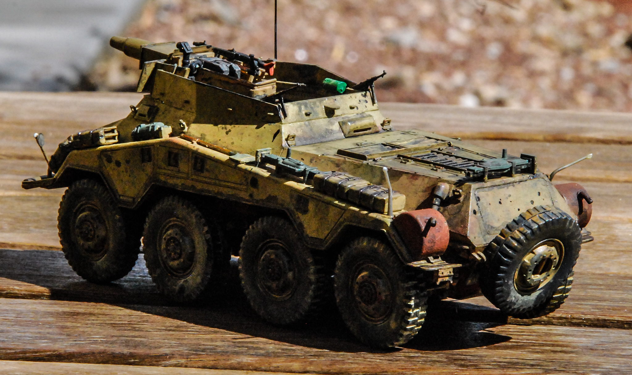 TDelCoro